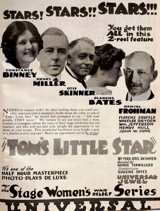 Ad for the war relief film Tom's Little Star (1919) with Constance Binney, Henry Miller Jr. (1889 – 1927), Otis Skinner, Blanche Bates, and Daniel Frohman, page 3041 of the April 3, 1920 Motion Picture News.